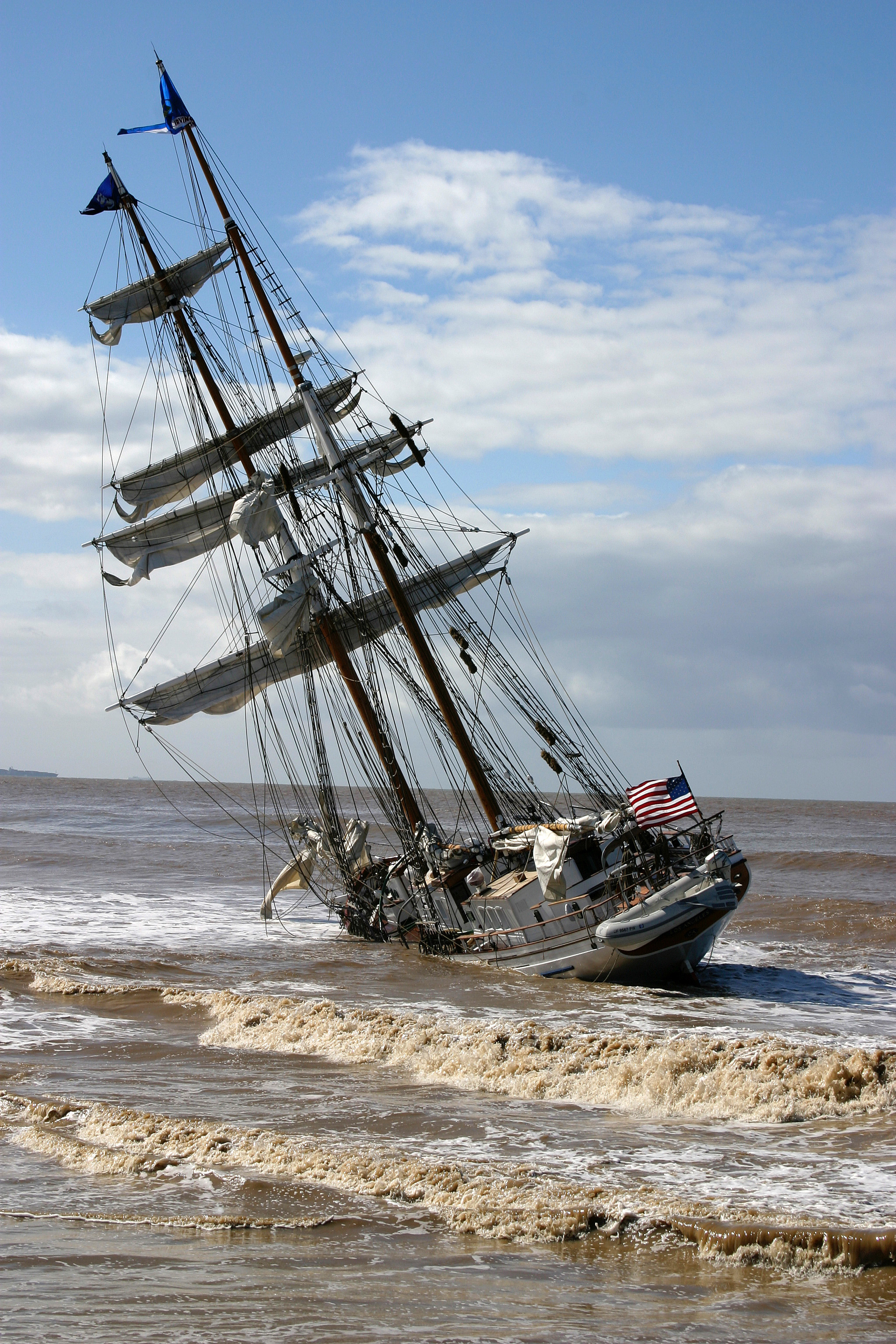 The tall ship Irving Johnson lies hard aground, only yards from shore, near the entrance to Channel Islands Harbor, Oxnard, California, March 2005